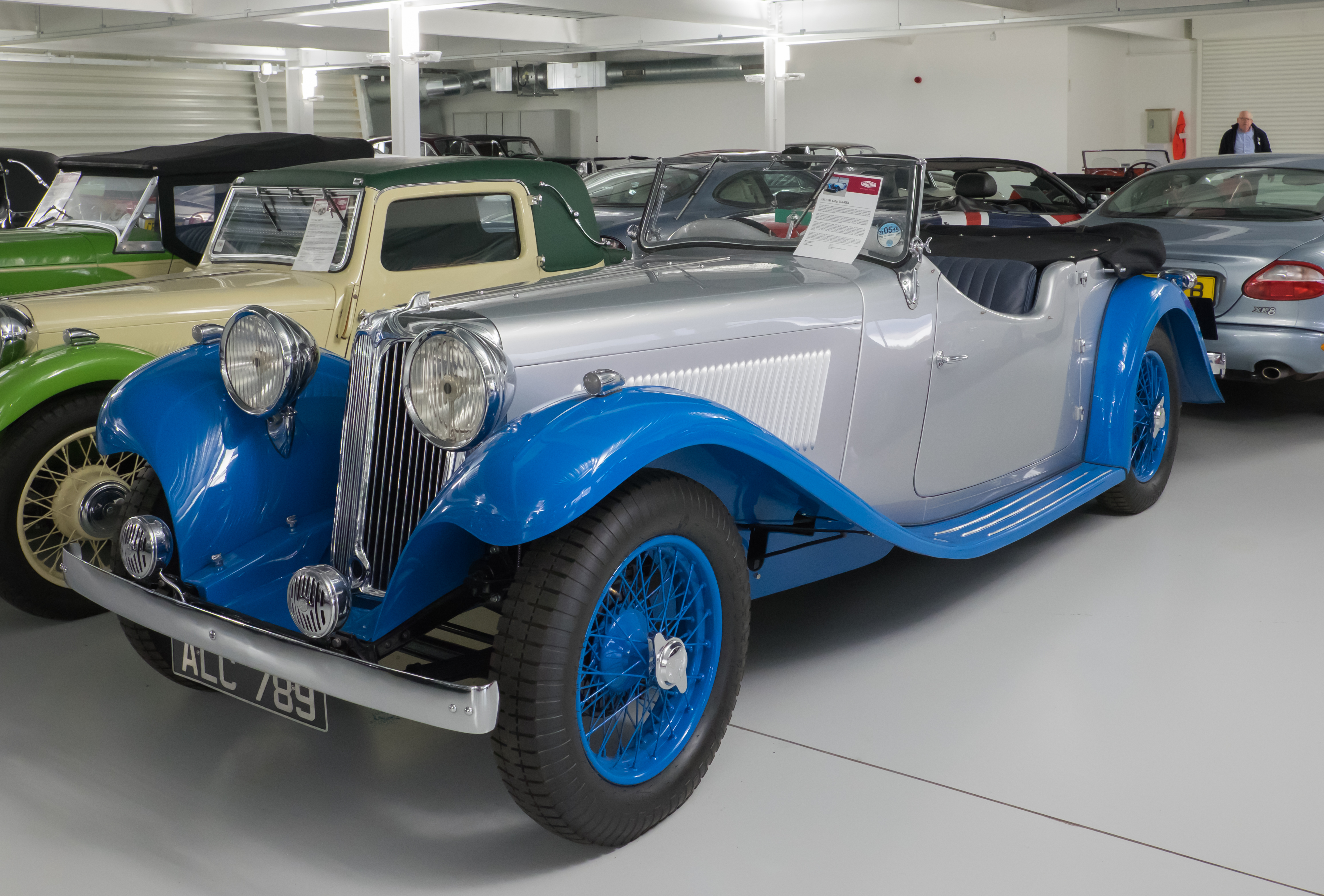 A 1933 SS 1 16hp Tourer, part of the Jaguar Heritage Collection kept at the British Motor Museum.